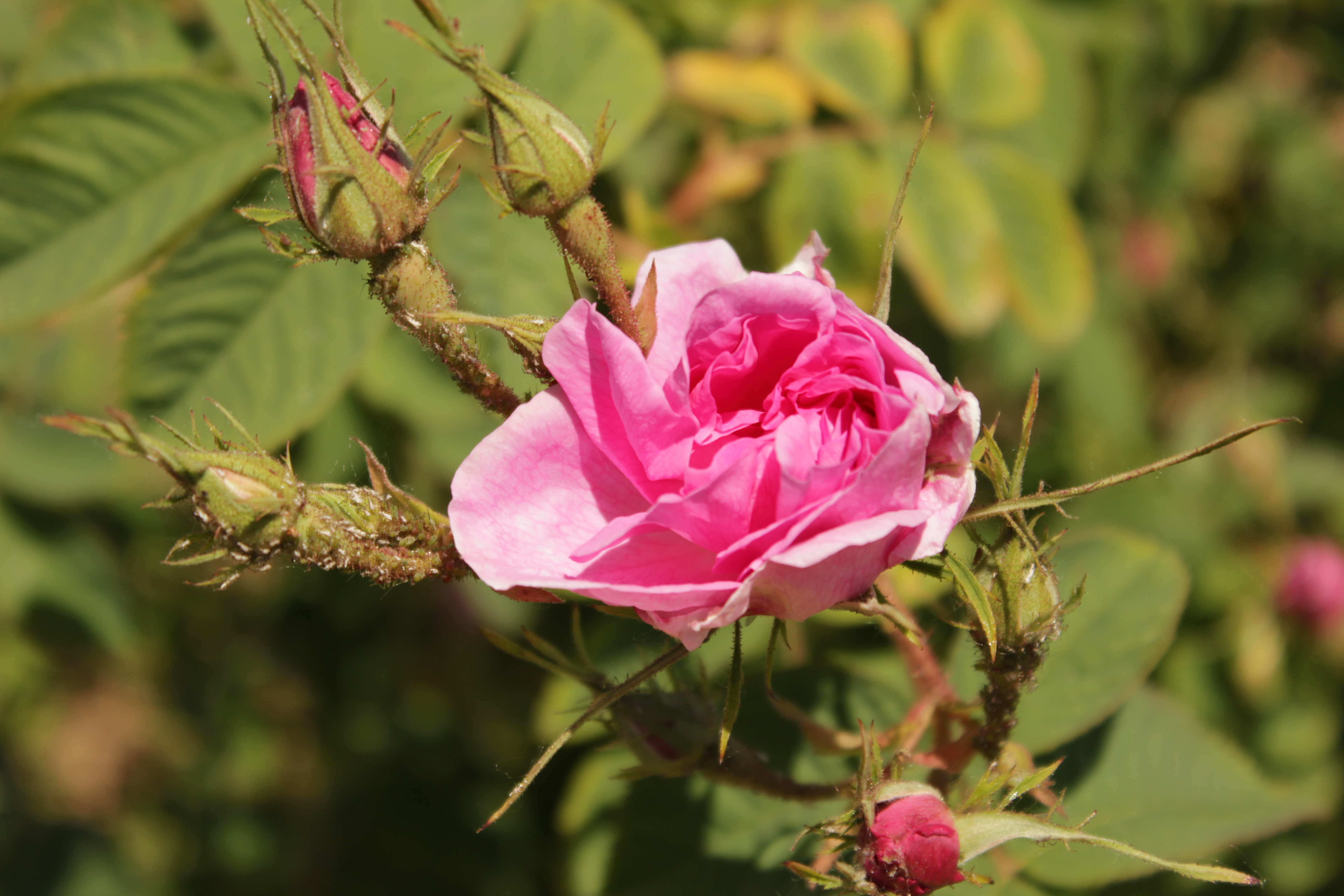 Bulgarian Rose from the Rose Valey, Bulgaria near Rosino Village